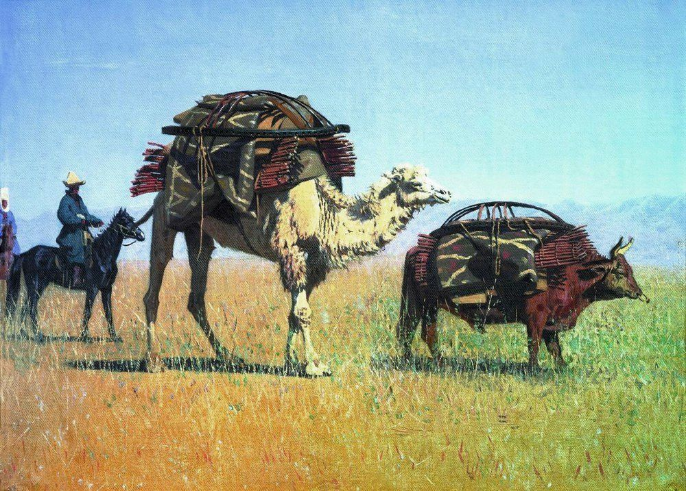 Kyrgyz migrations